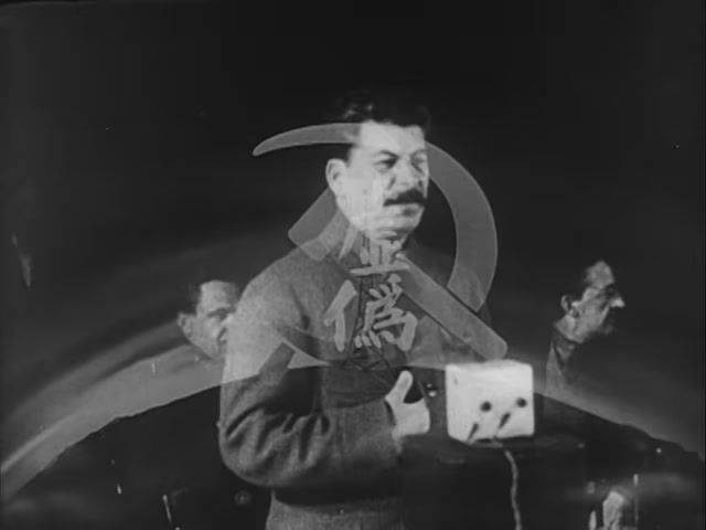 The Big Lie, 1951 anti-communist propaganda movie by the U.S. Army